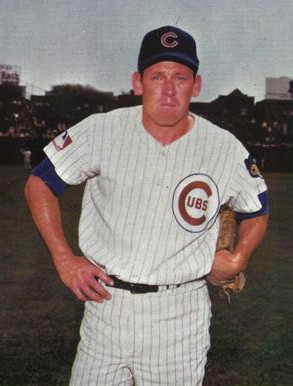 Professional baseball player Dick Selma